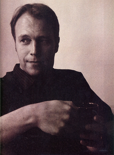 Erik Honoré, June 23, 2007